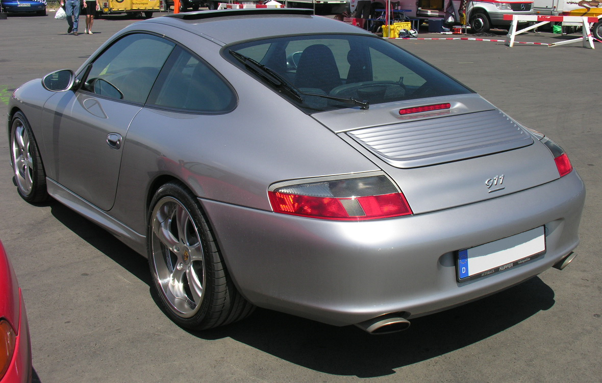 Porsche 996 Jubimodell. Photo taken on Nürburgring.